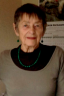 Beverley Anne Holloway September 2013